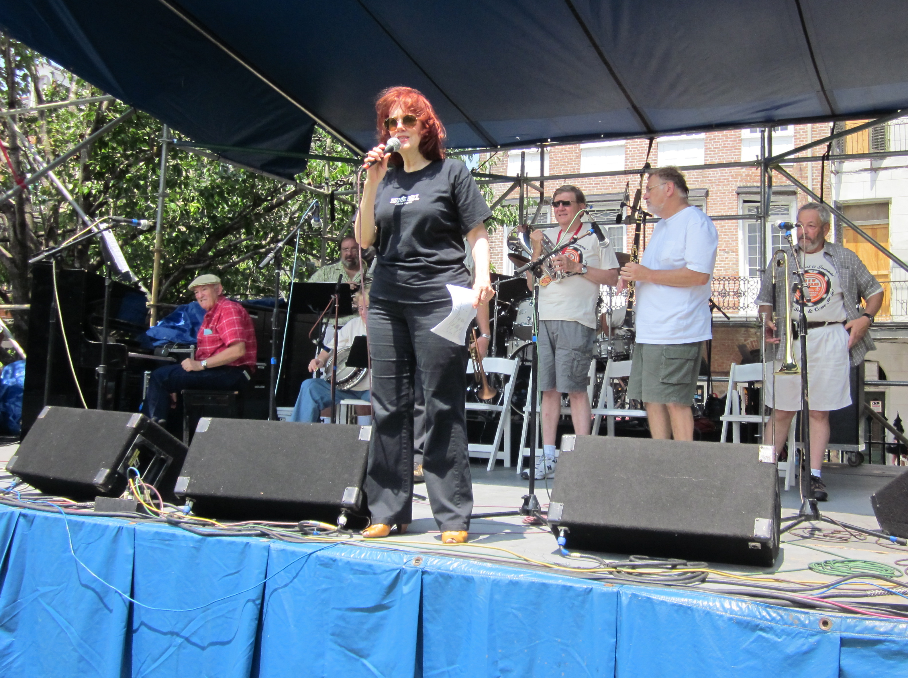 Satchmo SummerFest 2010, French Quarter, New Orleans.